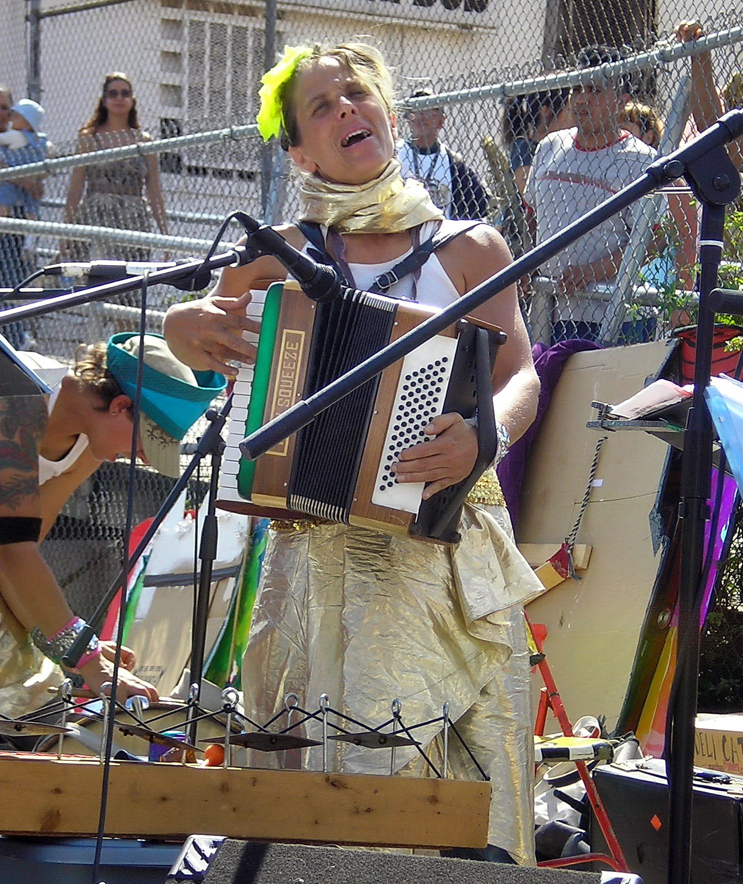 Circus Amok's Jenny Romaine by David Shankbone, New York City